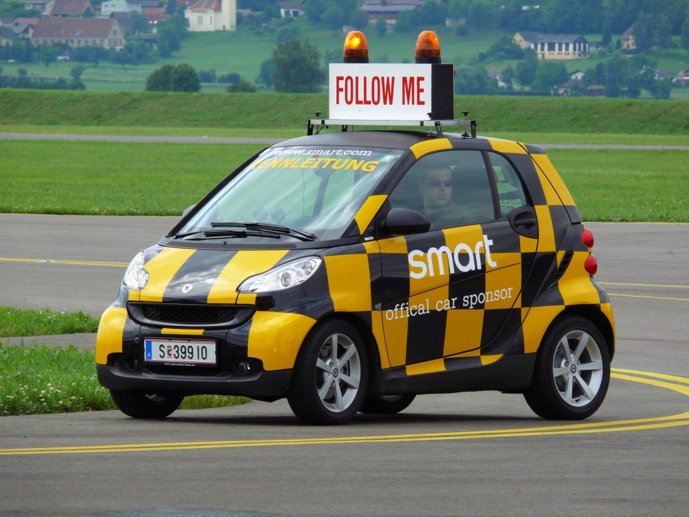 Follow-me Smart at Zeltweg Airport (during Airpower 09)